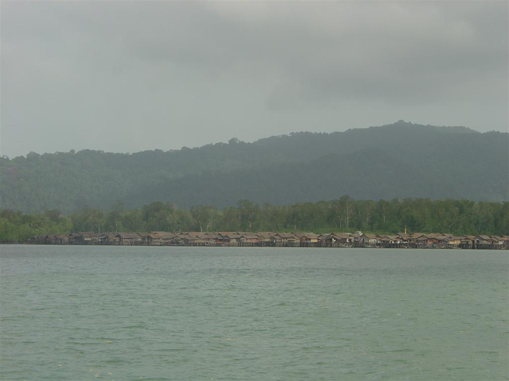 Island Village in the Mergui Archipelago